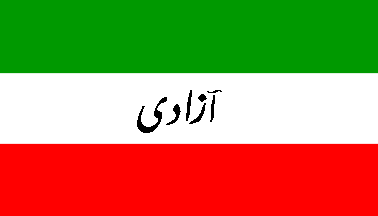 Entirely my own work